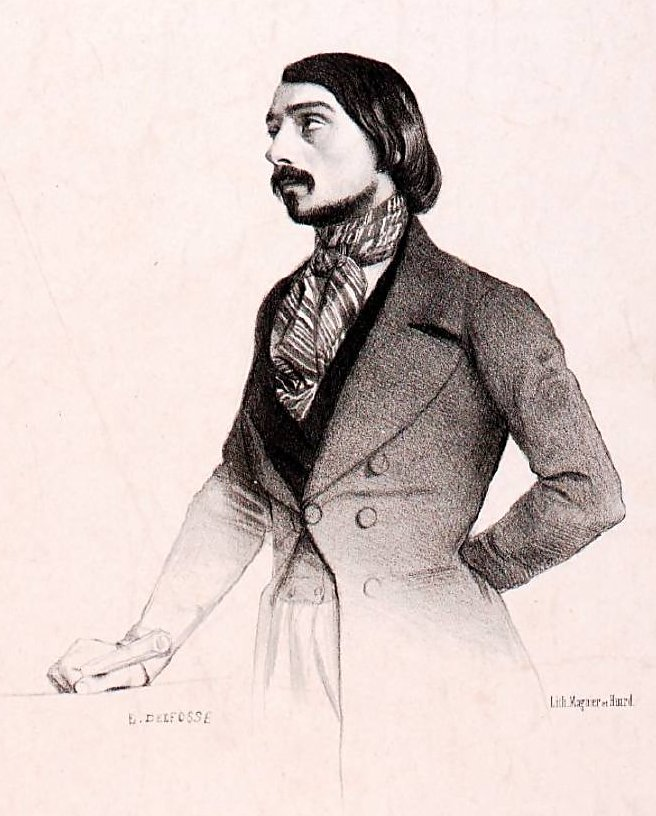 French composer Louis Abadie (1814-1858) by Eugène Delfosse (1825-1865).